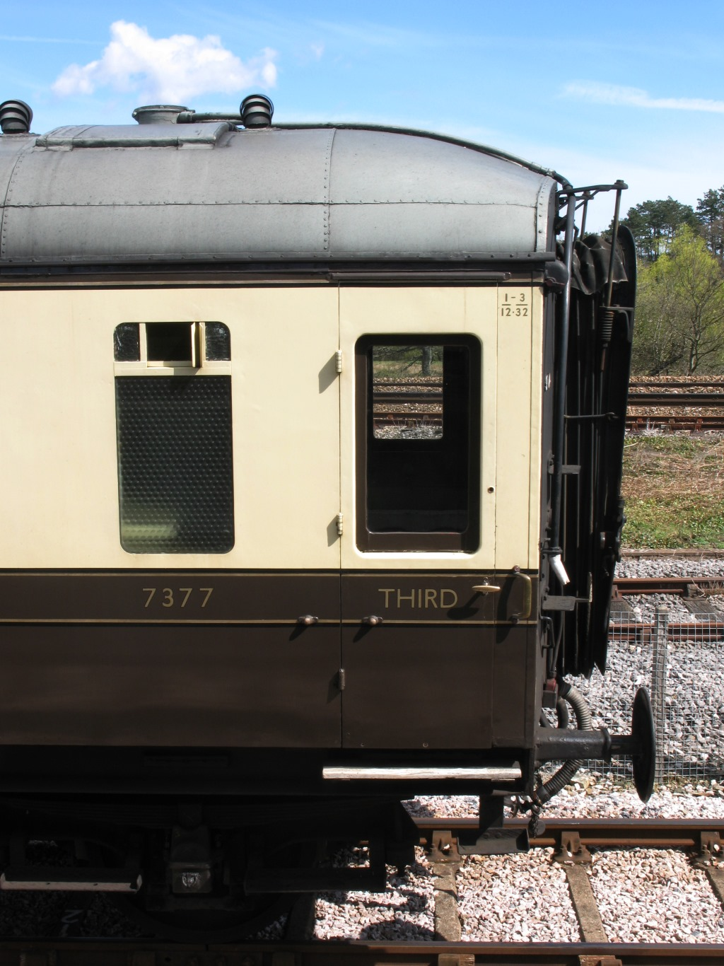 The distinctive roof profile of a Great Western Railway coach designed by F W Hawksworth. This one is number 7377, a diagram E164 Brake Composite built c.1948. Preserved on the South Devon Railway.